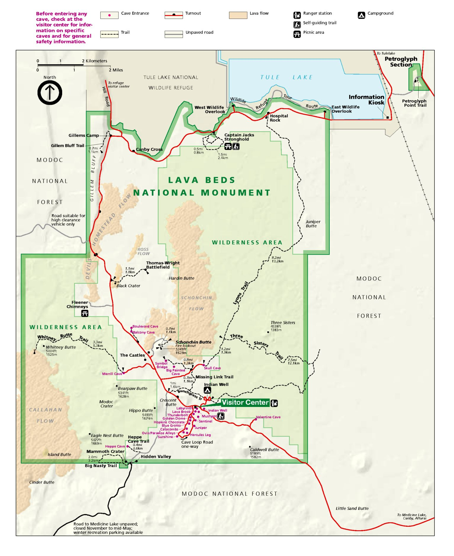 Map of Lava Beds National Monument, in northeastern California.